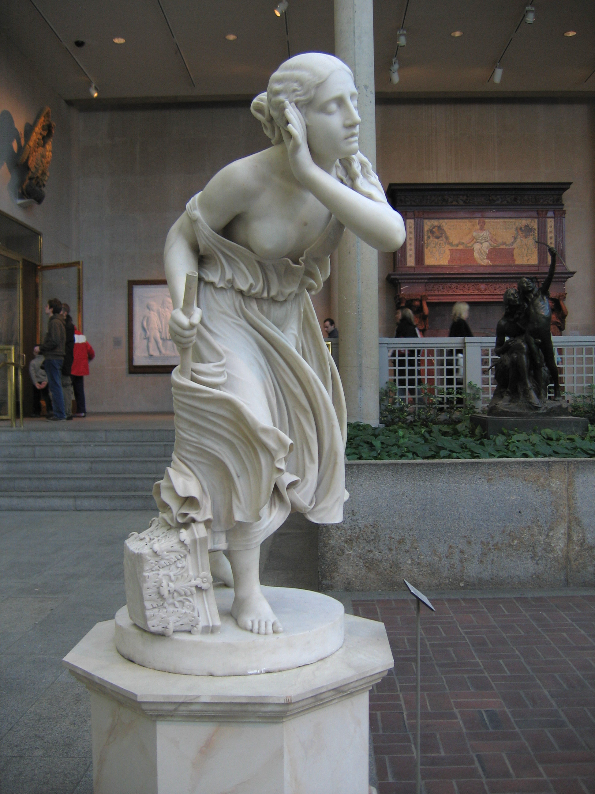 Nydia, the Blind Flower Girl of Pompeii, ca. 1853-54; this replica, 1859. Randolph Rogers (1825 - 1892). Marble. Metropolitan Museum of Art, New York City.